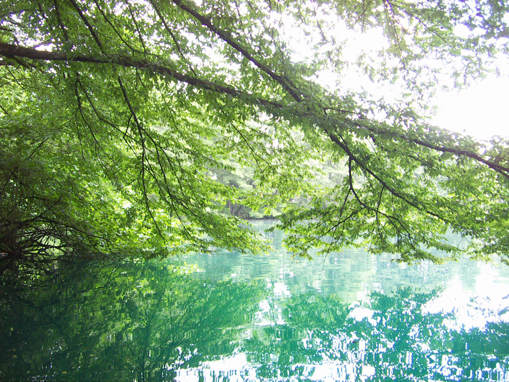 Blue Lakes, Kabardino-Balkaria, Russia.